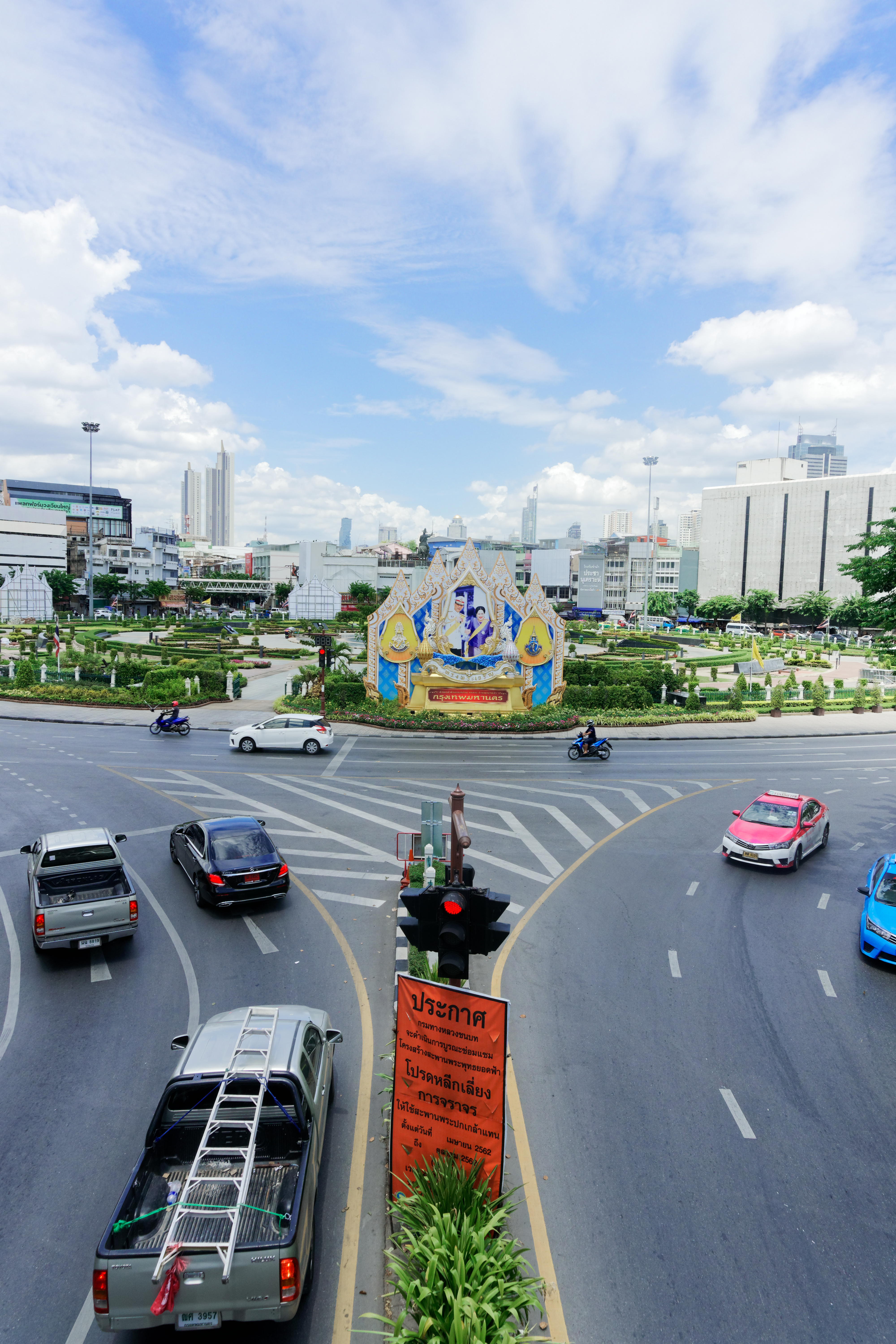 King Taksin's statue (View from Intharaphitak)